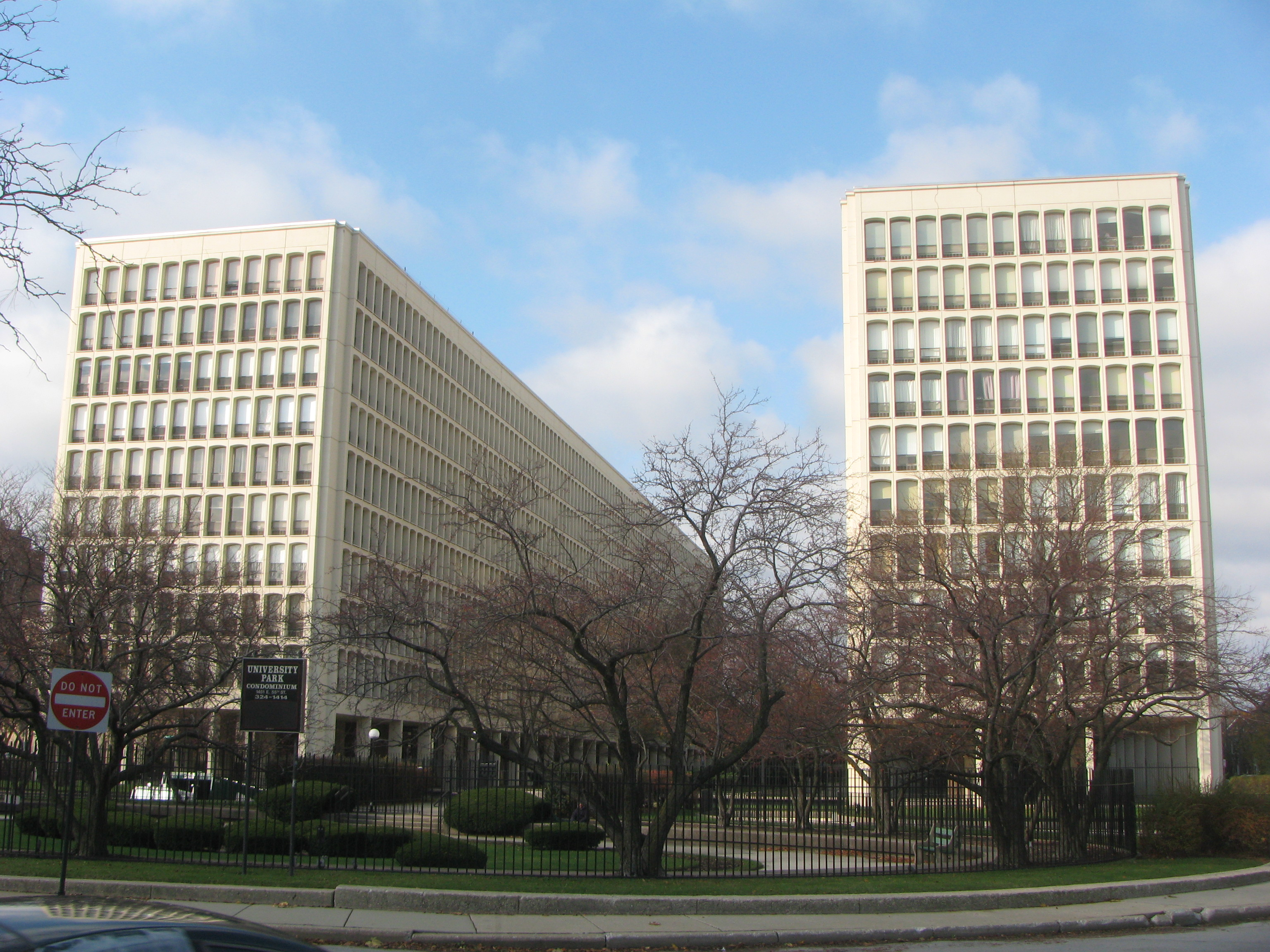 University Apartments, Chicago, Illinois (1961). Originally known as University Gardens Apartments.